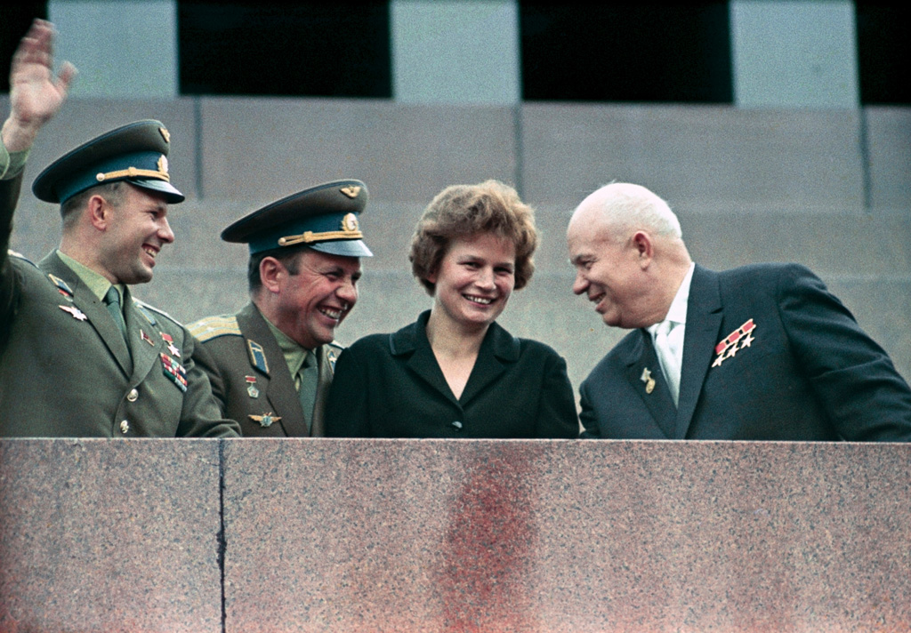 “Nikita Khrushchev, Valentina Tereshkova, Pavel Popovich and Yury Gagarin at Lenin Mausoleum”. Nikita Khrushchev (right), first secretary of the CPSU Central Committee, and cosmonauts Valentina Tereshkova, Pavel Popovich (center) and Yuri Gagarin at the Lenin Mausoleum during a demonstration dedicated to the successful space flights of the Vostok-5 (Valery Bykovsky) and Vostok-6 (Valentina Tershkova) spacecraft. [See #67477]